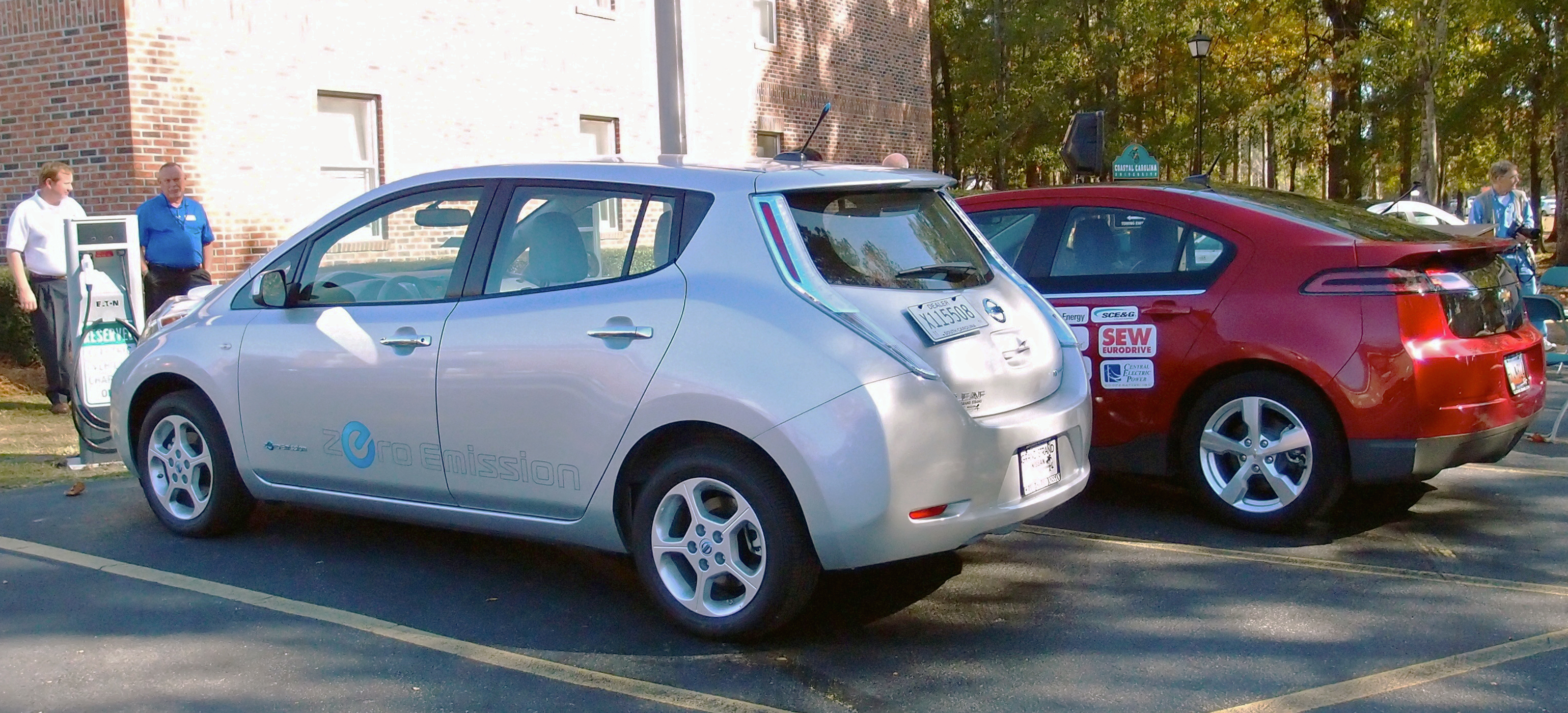 Nissan Leaf all-electric car (left) and Chevrolet Volt plug-in hybrid (right) charging in Crosswinds, South Carolina, US.